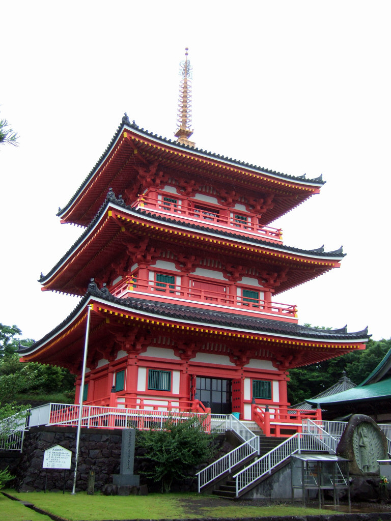 Saikyoji Temple(Hirado,Nagasaki JAPAN)